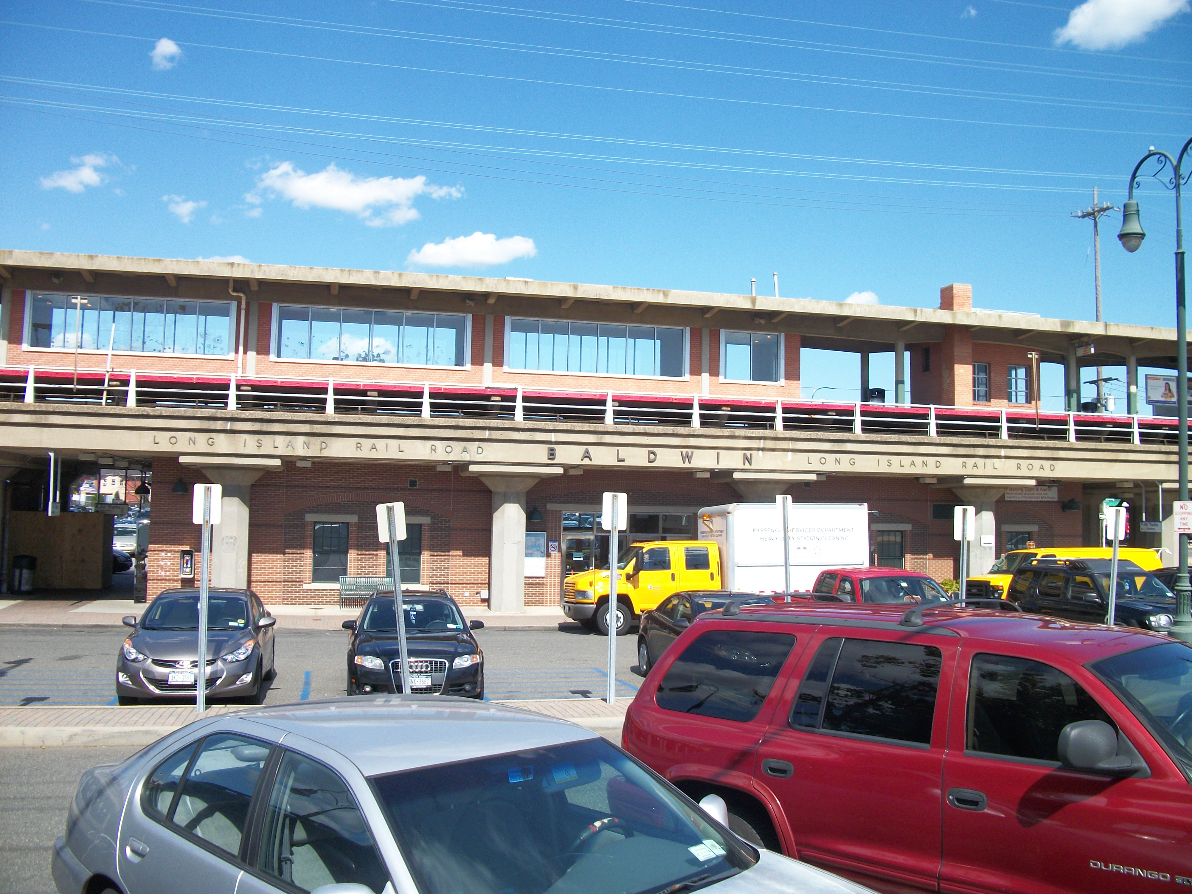 Baldwin (LIRR Station) as seen from the westbound sidewalk on Sunrise Highway at a northeast angle in Baldwin, New York.